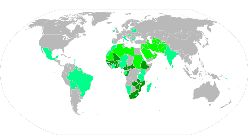 This map shows all the countries in the world that have green in their flags and why. Used in honor of the Islamic religion Pan-African colors (Red, Yellow, and Green) Other, most commonly to represent either lush national vegetation or heraldry